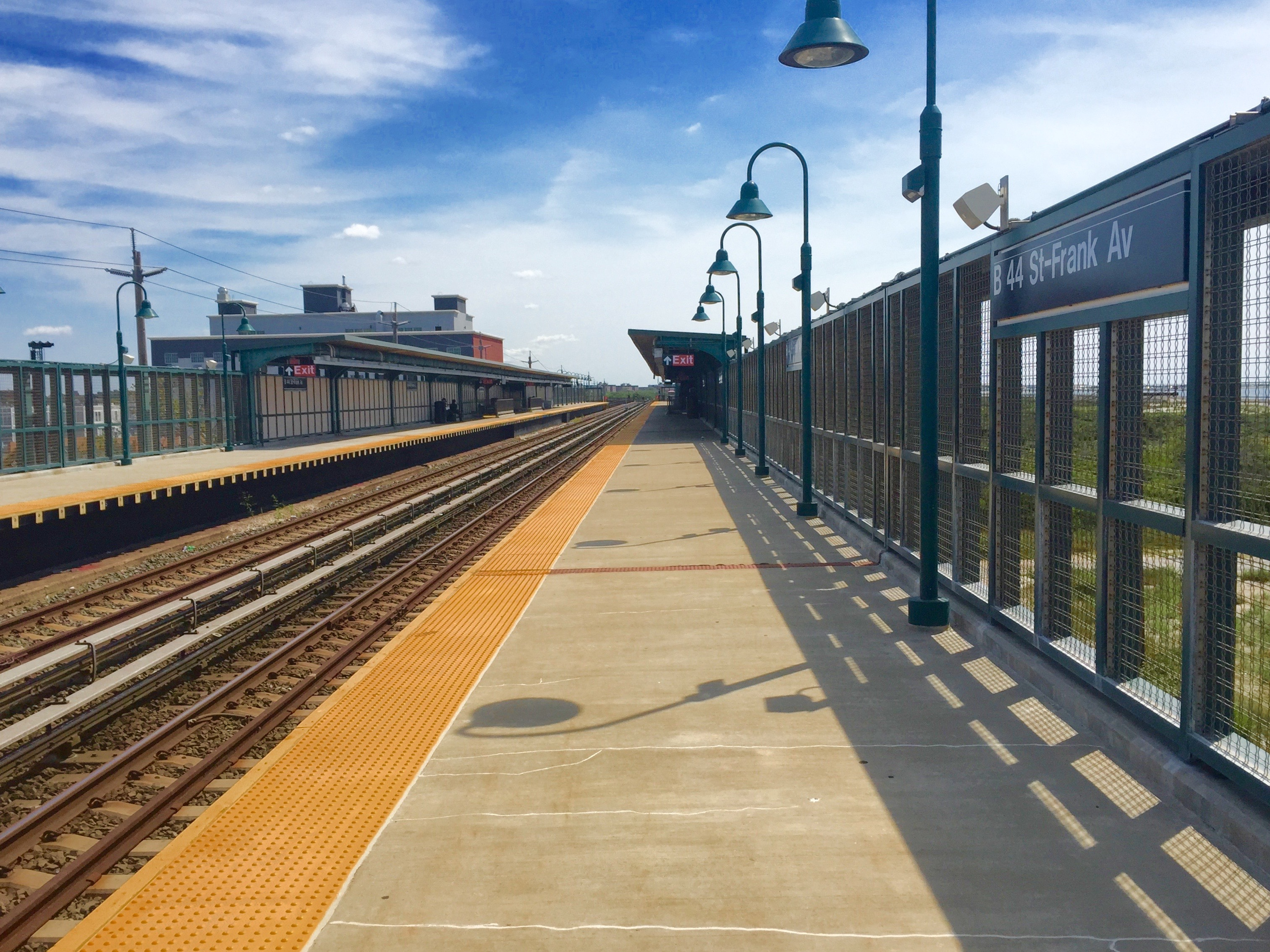 Mott Avenue bound platform at Beach 44th Street on the A.